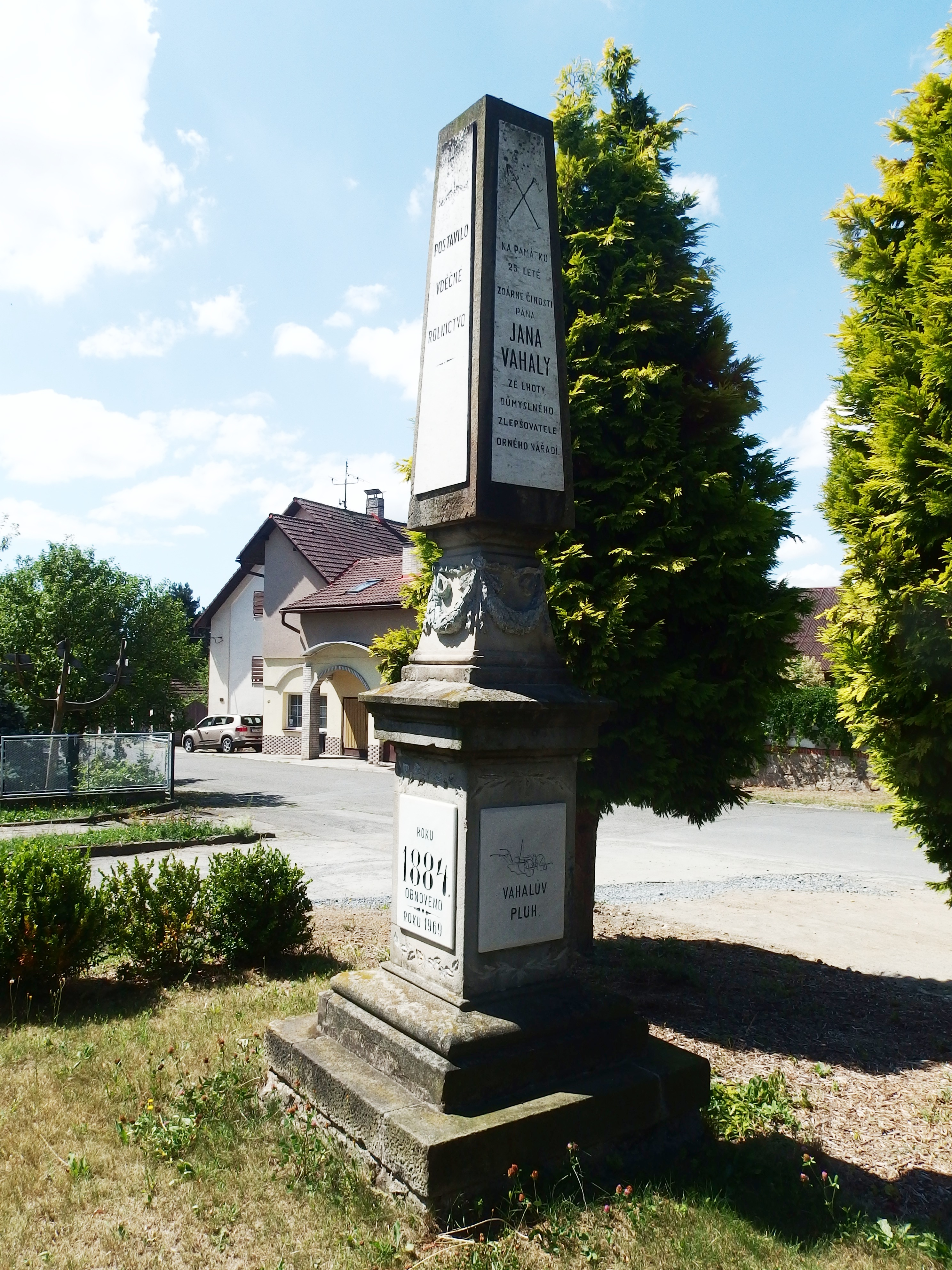 Starý Jičín, Nový Jičín District, Czech Republic, part Starojická Lhota.